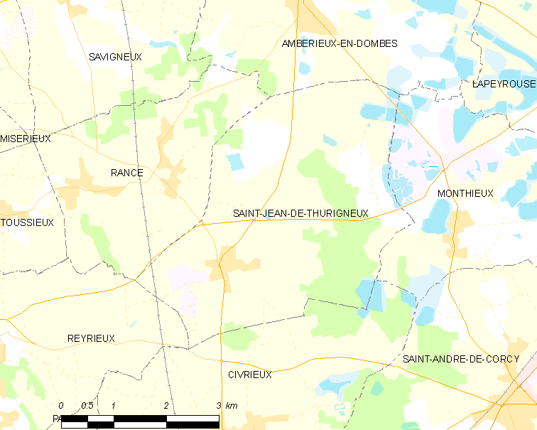 Map of French commune: Saint-Jean-de-Thurigneux Map commune FR insee code 01362.png